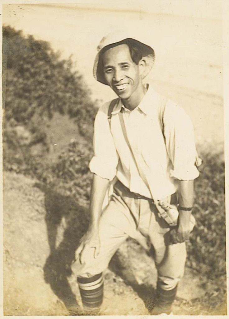 Long Ying-zong